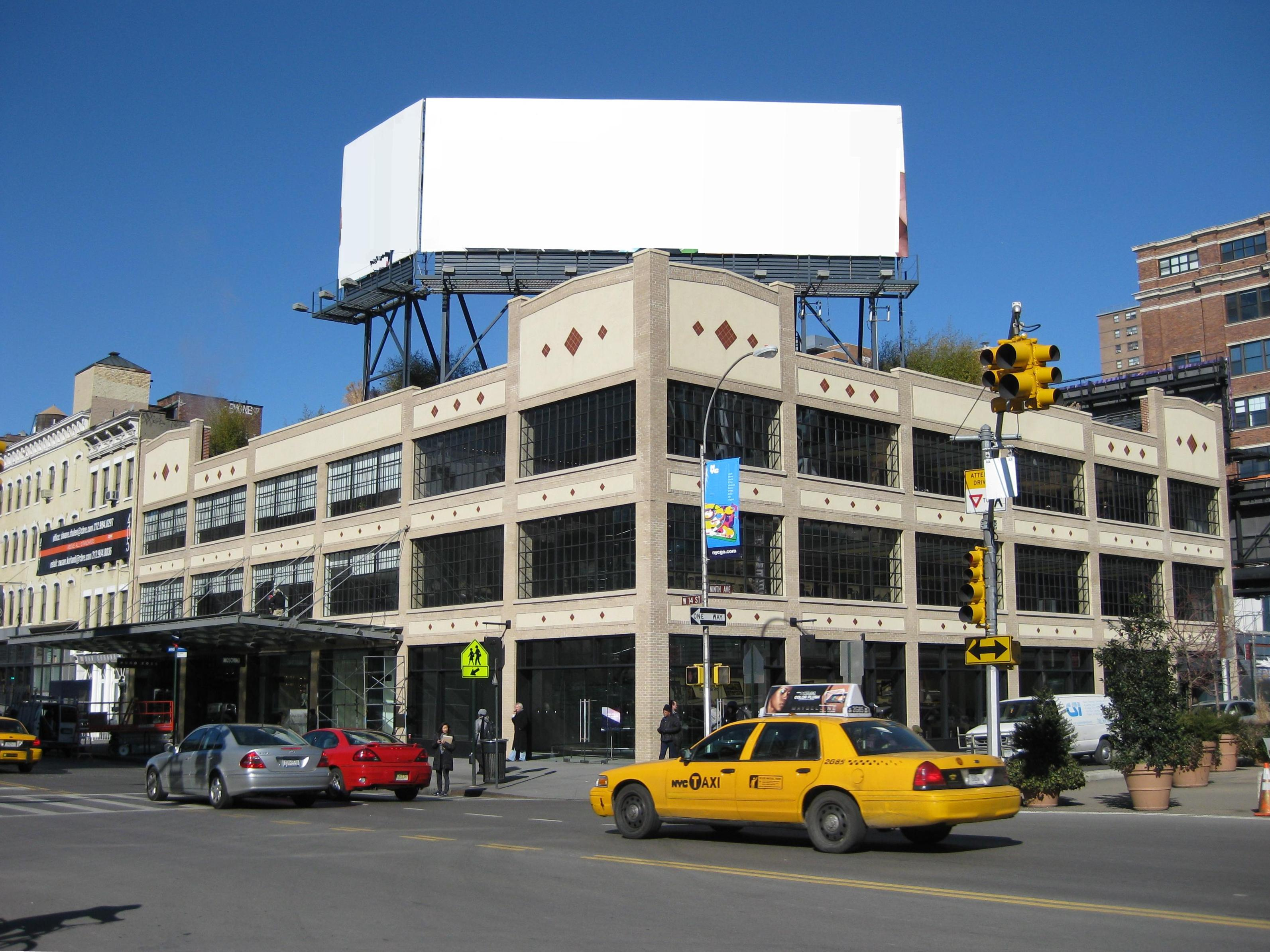 Apple Store, West 14th Street: 401 W. 14th St. at 9th Ave., Meatpacking District, Manhattan, New York City